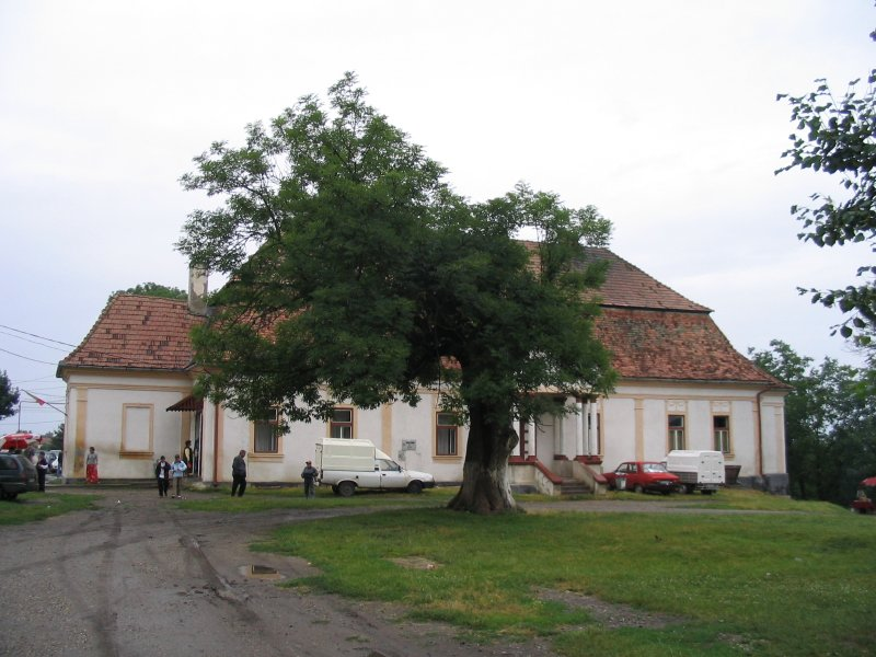 Zichy-castle, Voivodeni (de. Johannisdorf, hu. Vajdaszentivány), Mureş county, Transylvani